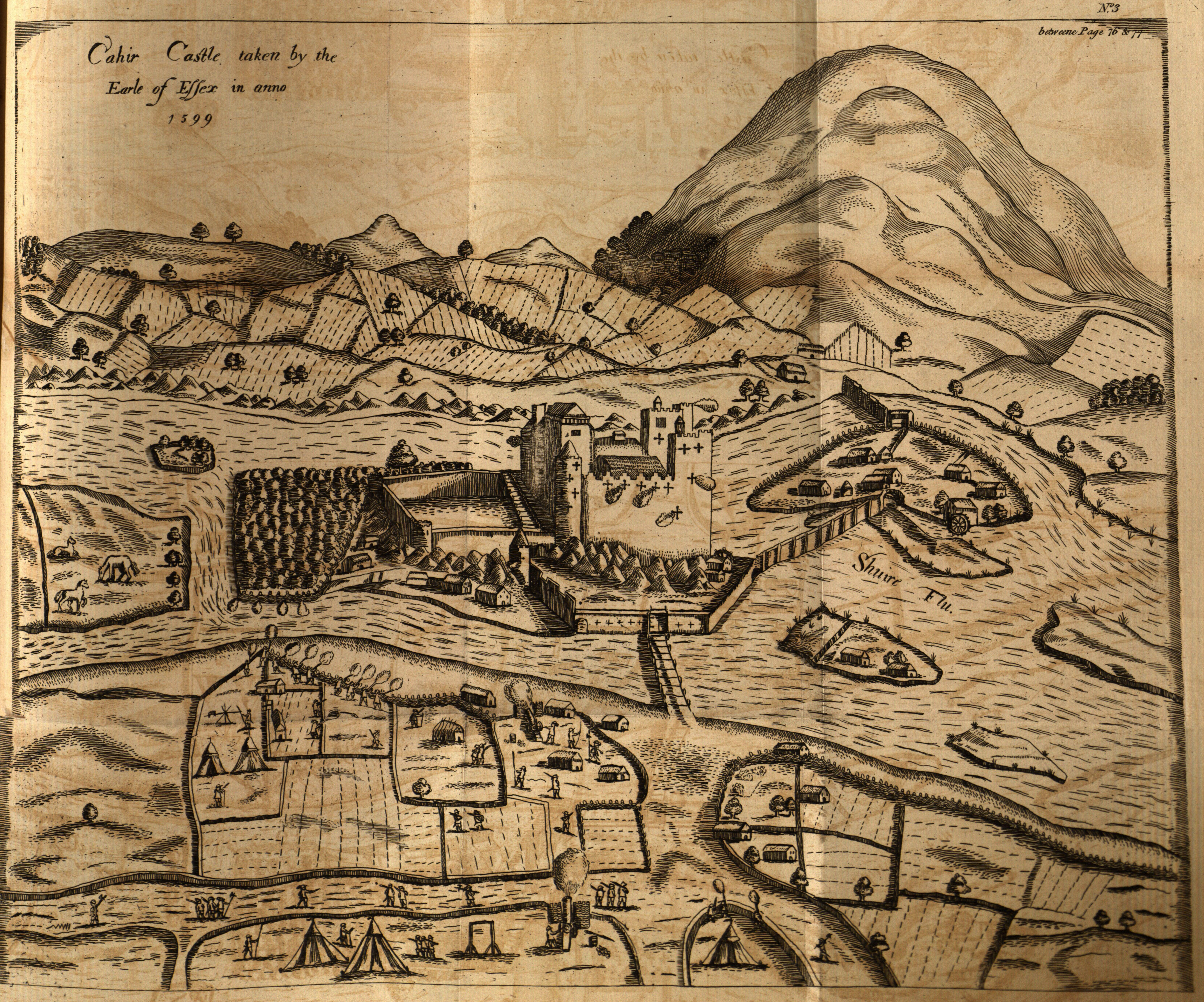 Cahir, County Tipperary, Ireland, in A.D. 1599.